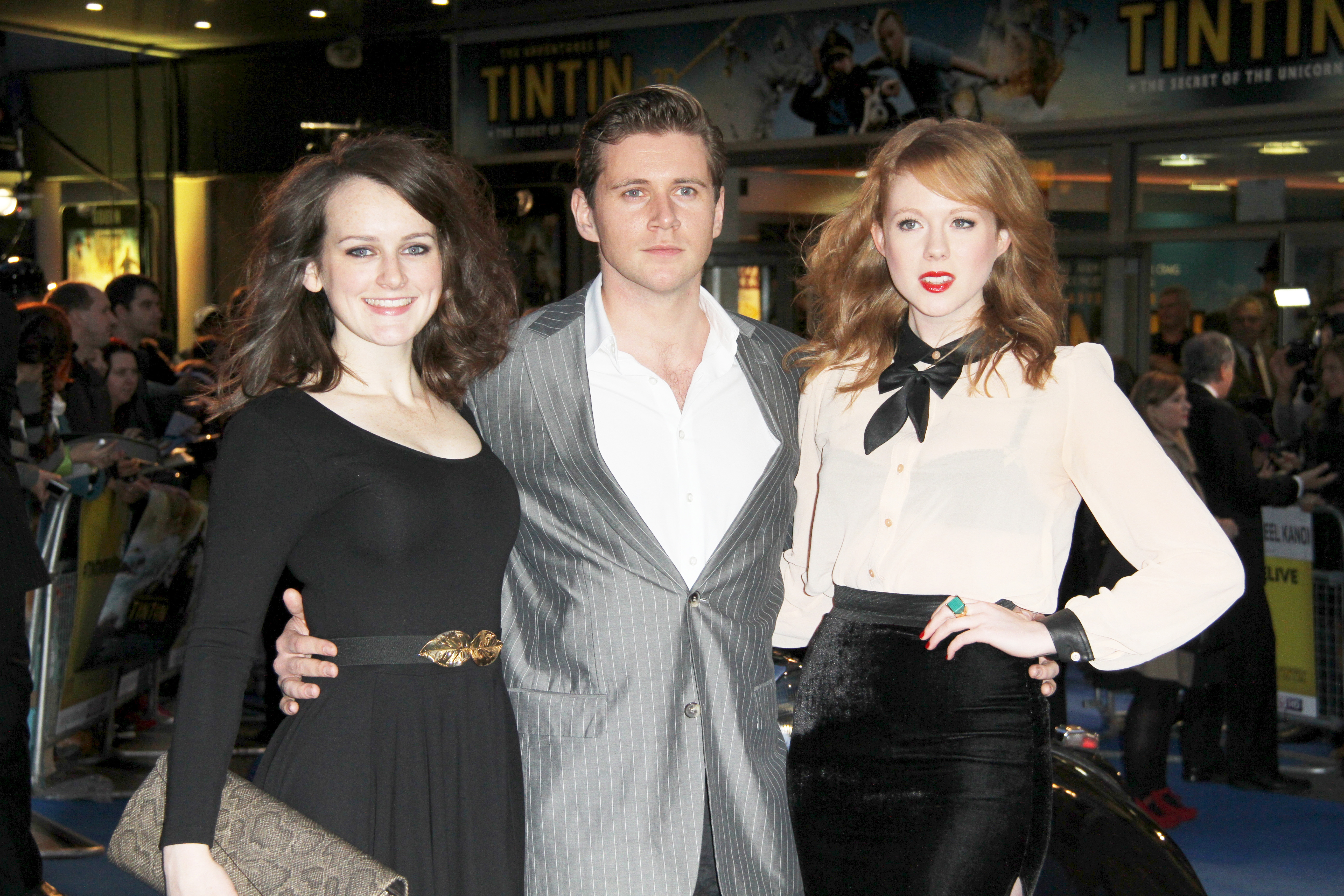 British actresses Sophie McShera (left) and Zoe Boyle (right) with Irish actor Allen Leech at the UK film premiere of The Adventures of Tintin: The Secret of the Unicorn, Odeon West End Cinema, London, UK on 23 October 2011.